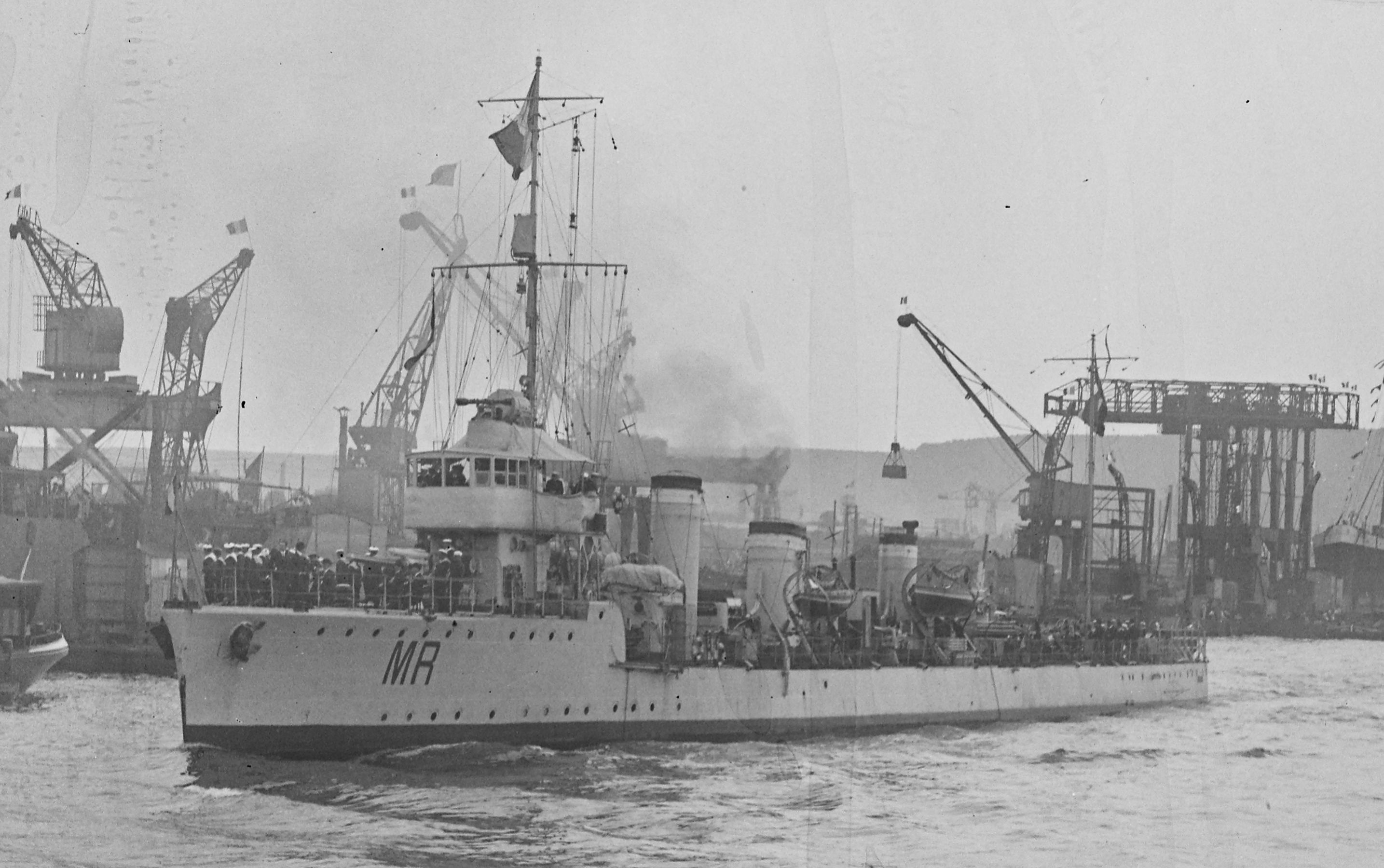 Arabe-class destroyer Marocain of the French Marine nationale, underway on the Seine, between Le Havre and Rouen.